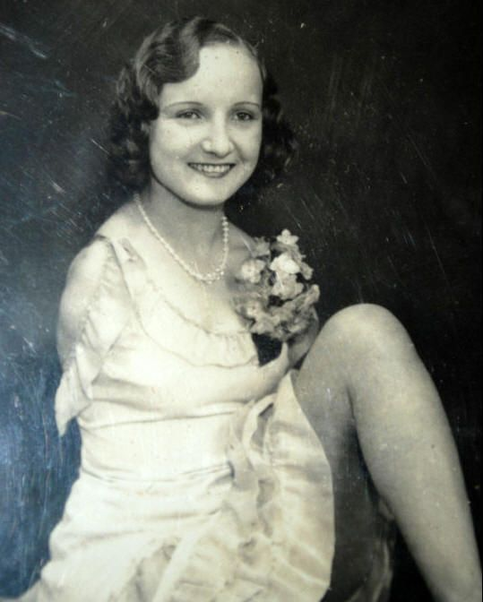 Frances O'Connor, actress. Image in public domain.